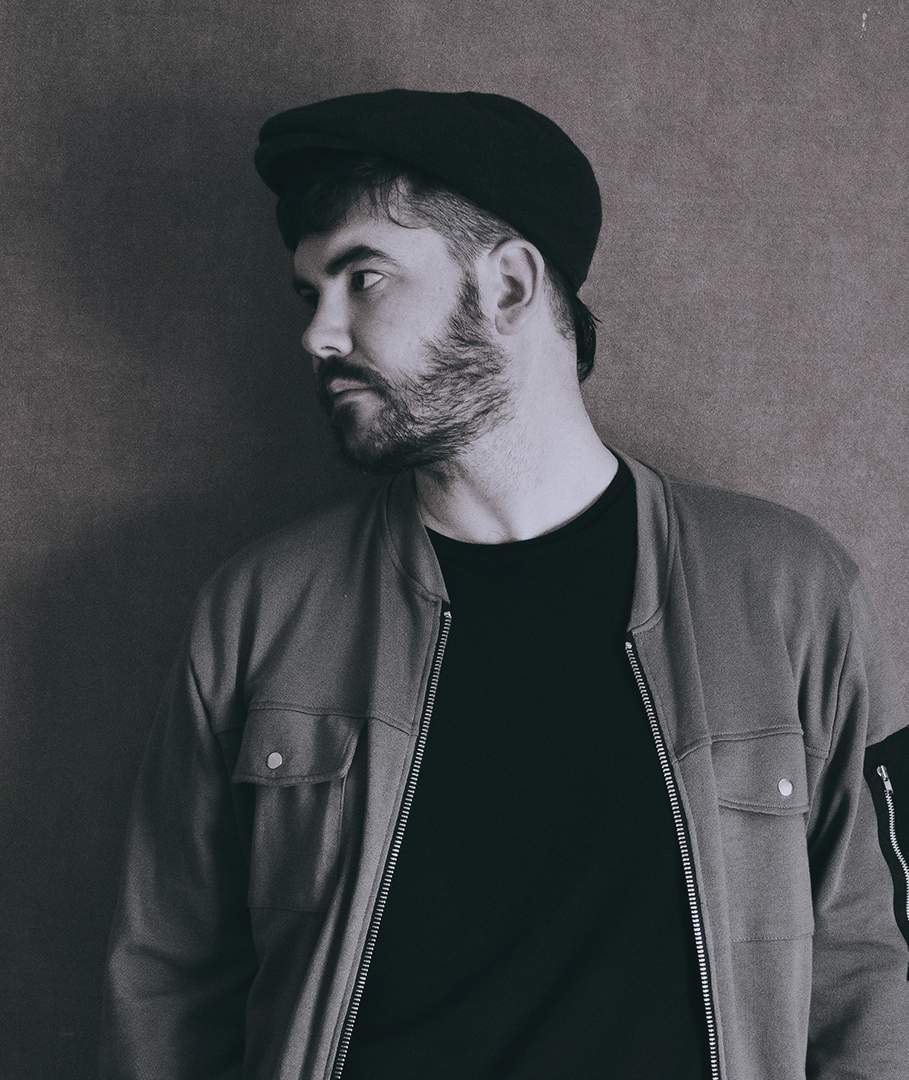 Draft, profile image